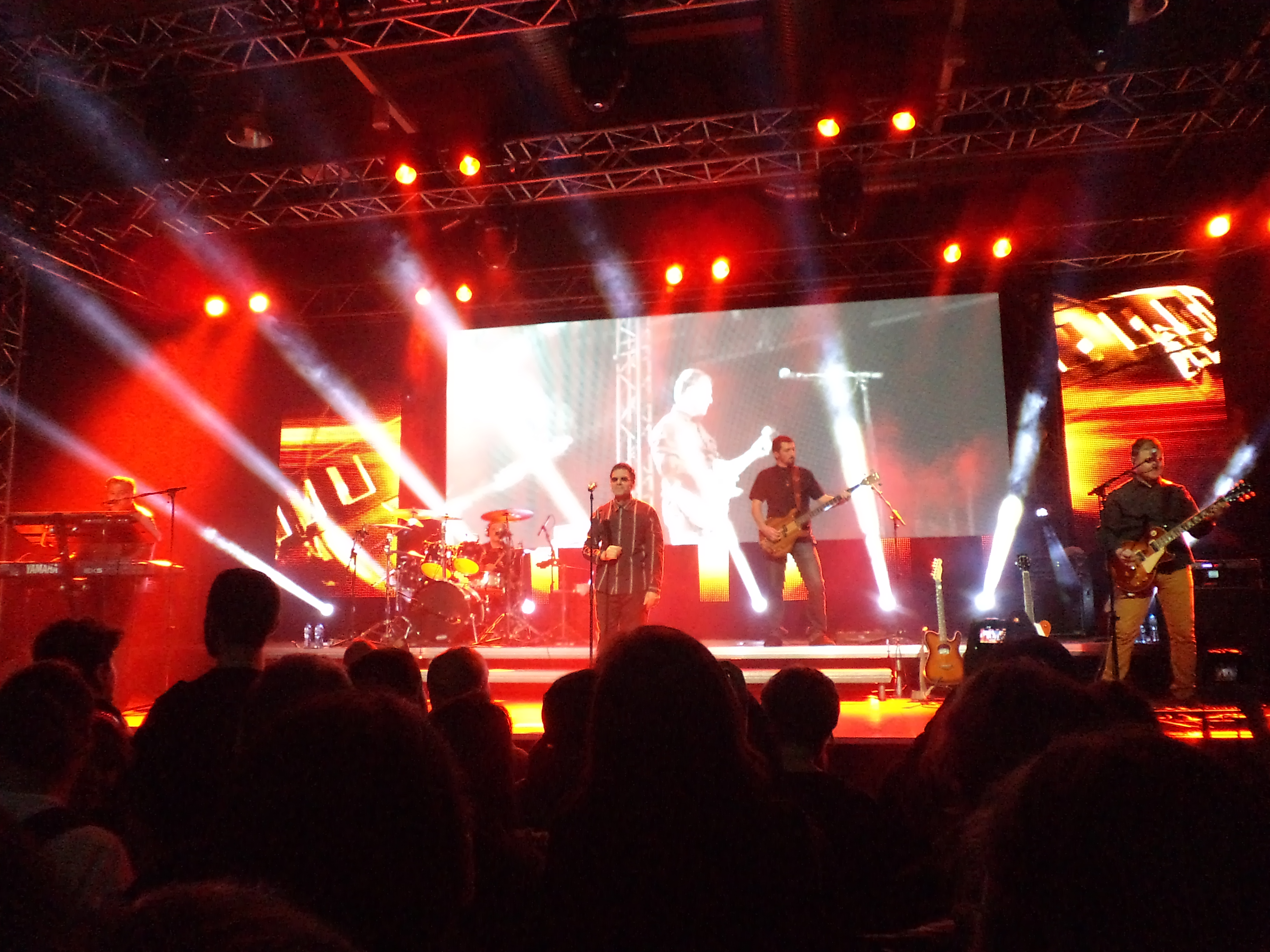 The concert of the Bulgarian band "Klas" - 19 April 2013